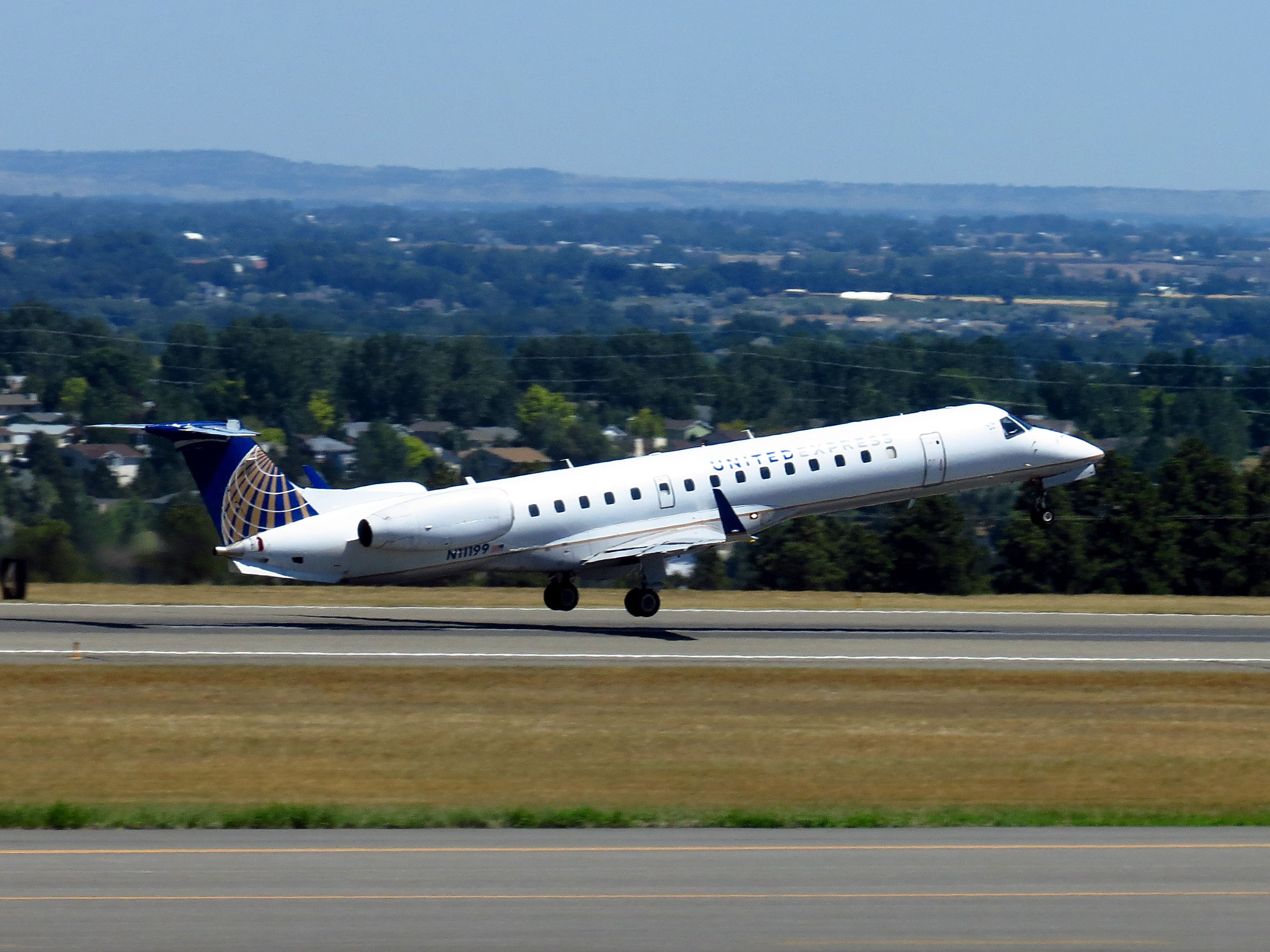 ExpressJet Airlines Embraer ERJ-145 Billings Logan International Airport